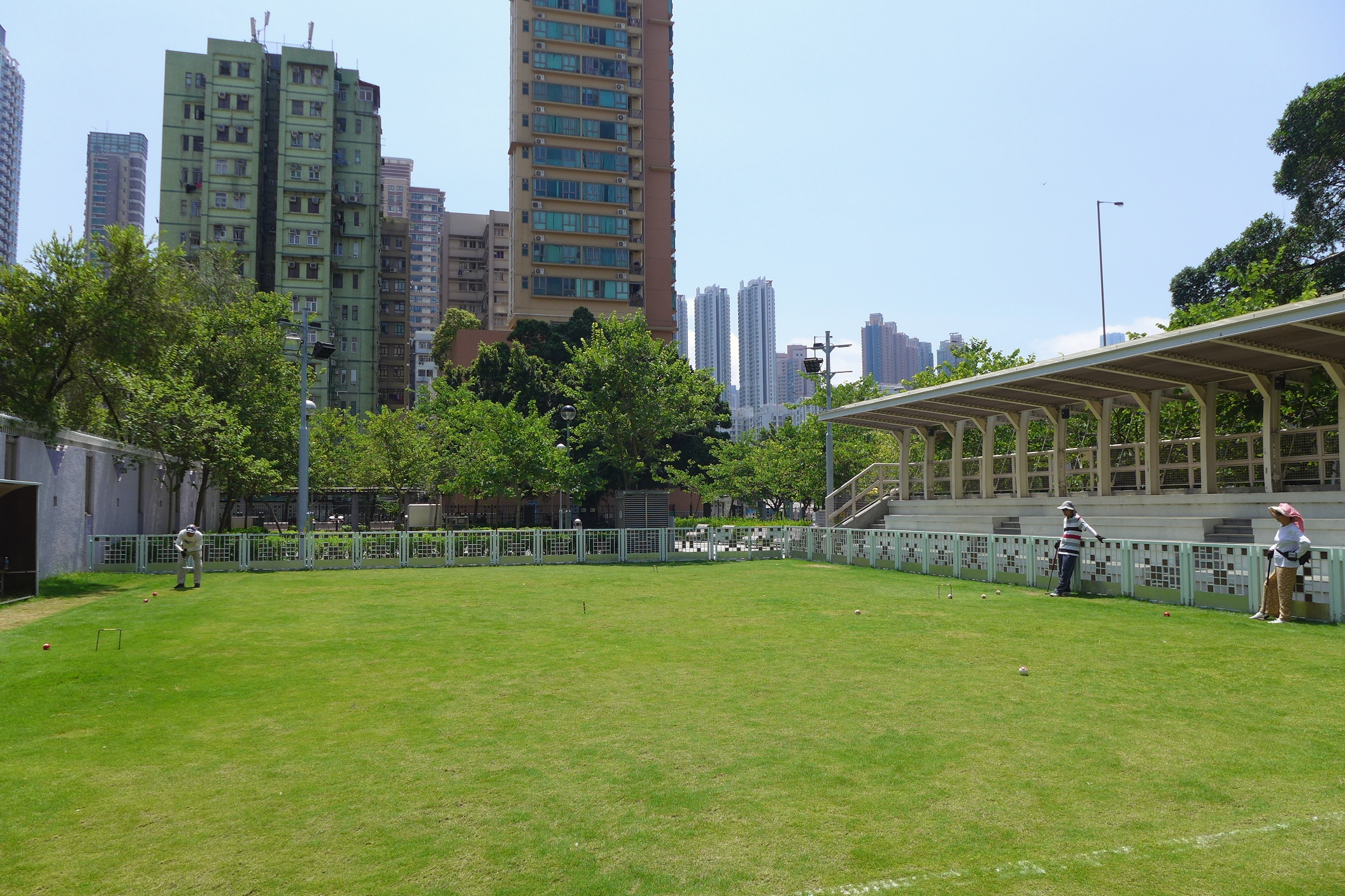 Sham Shui Po Park Lawn Bowls